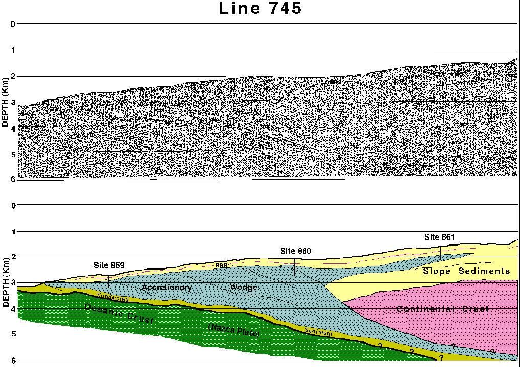 Accretionary Prism